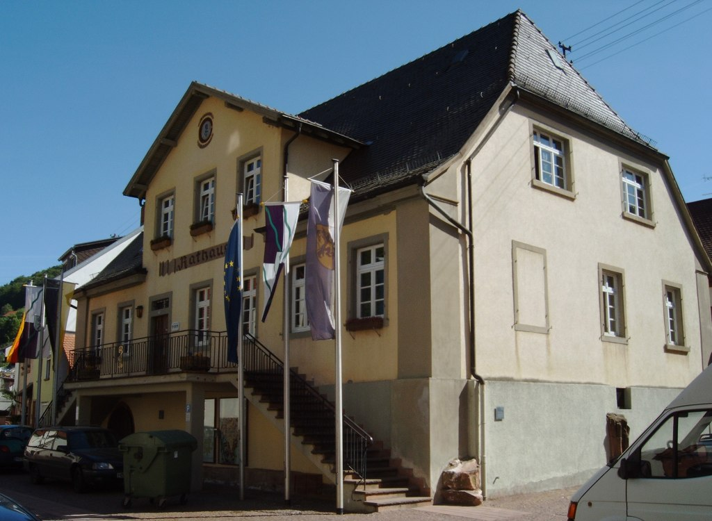 Town hall in Schönau (Odenwald)